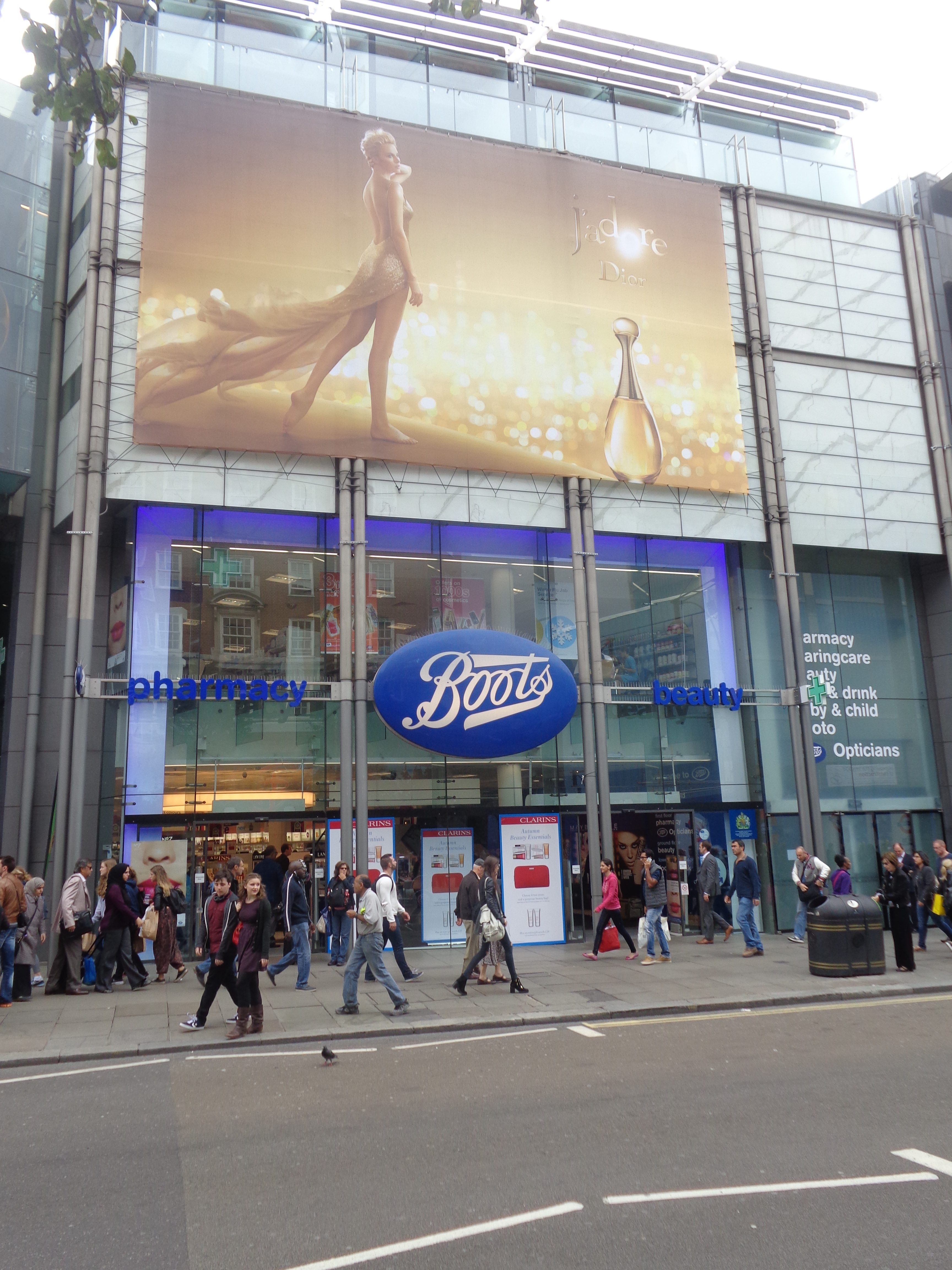 Boots the Chemist, 361 Oxford Street, London W1C 2JL. Taken midday on Thursday the 25th of September 2014.